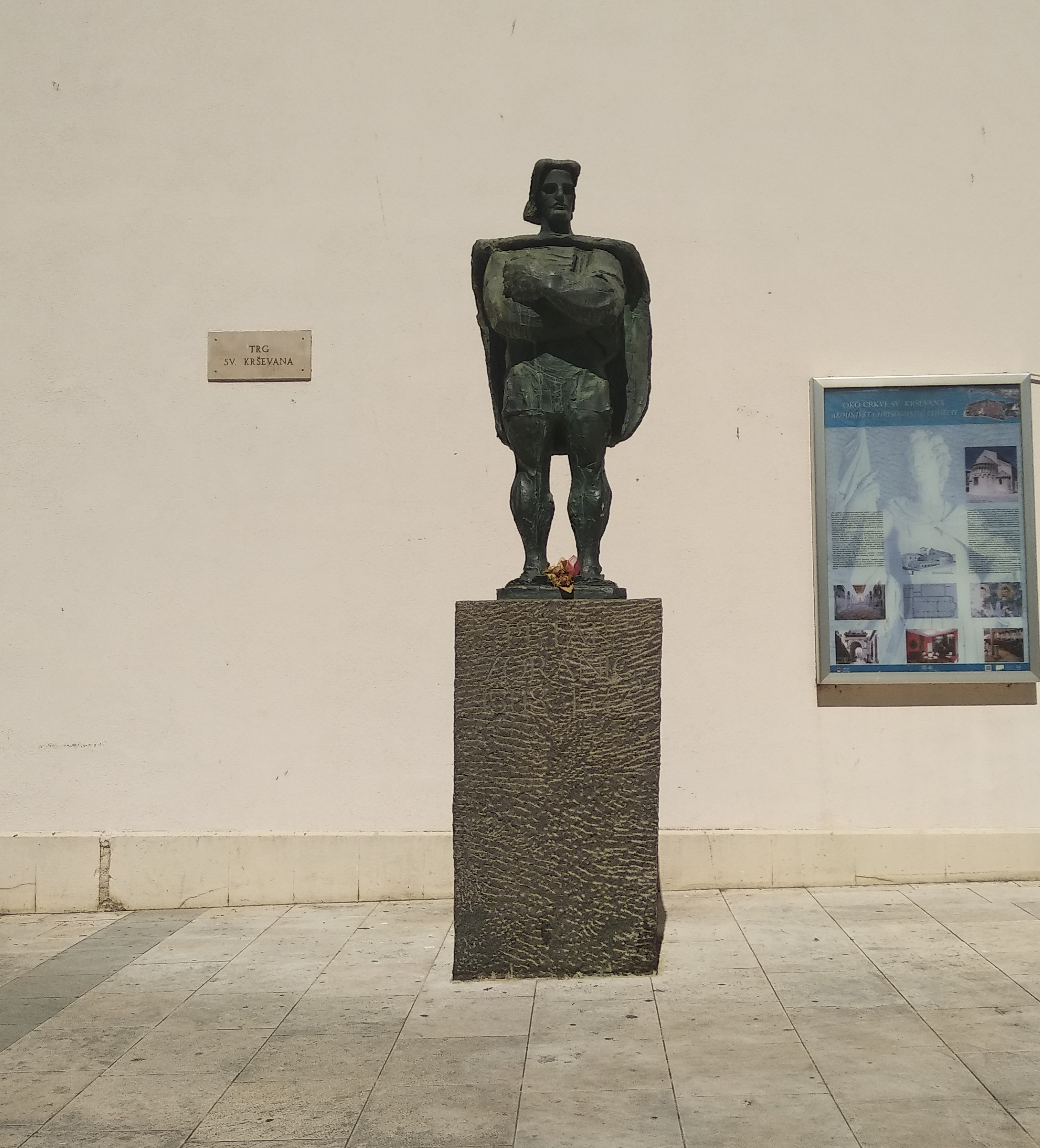 A statue of a patron saint of city of Zadar